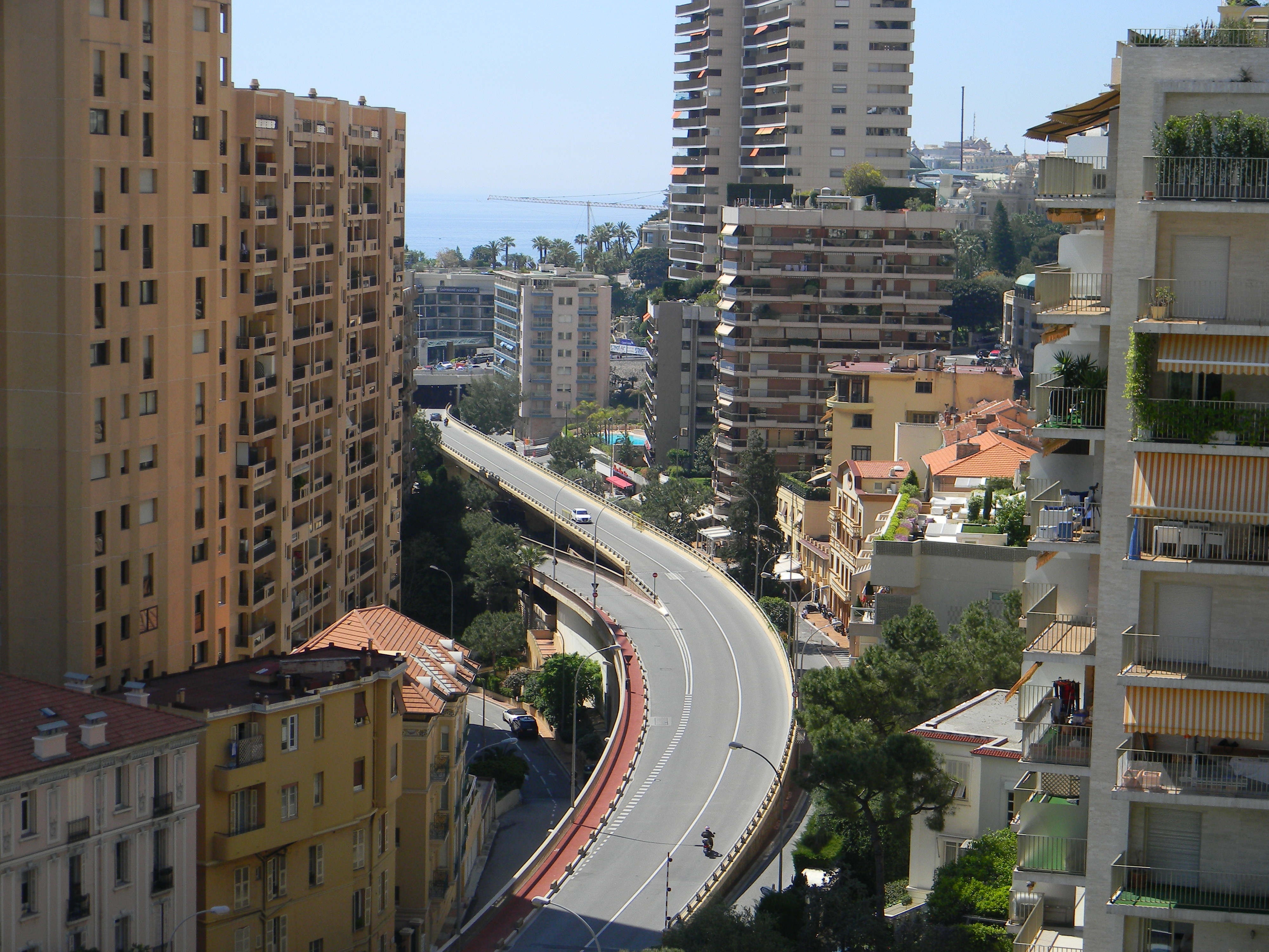 Monaco, Monte Carlo